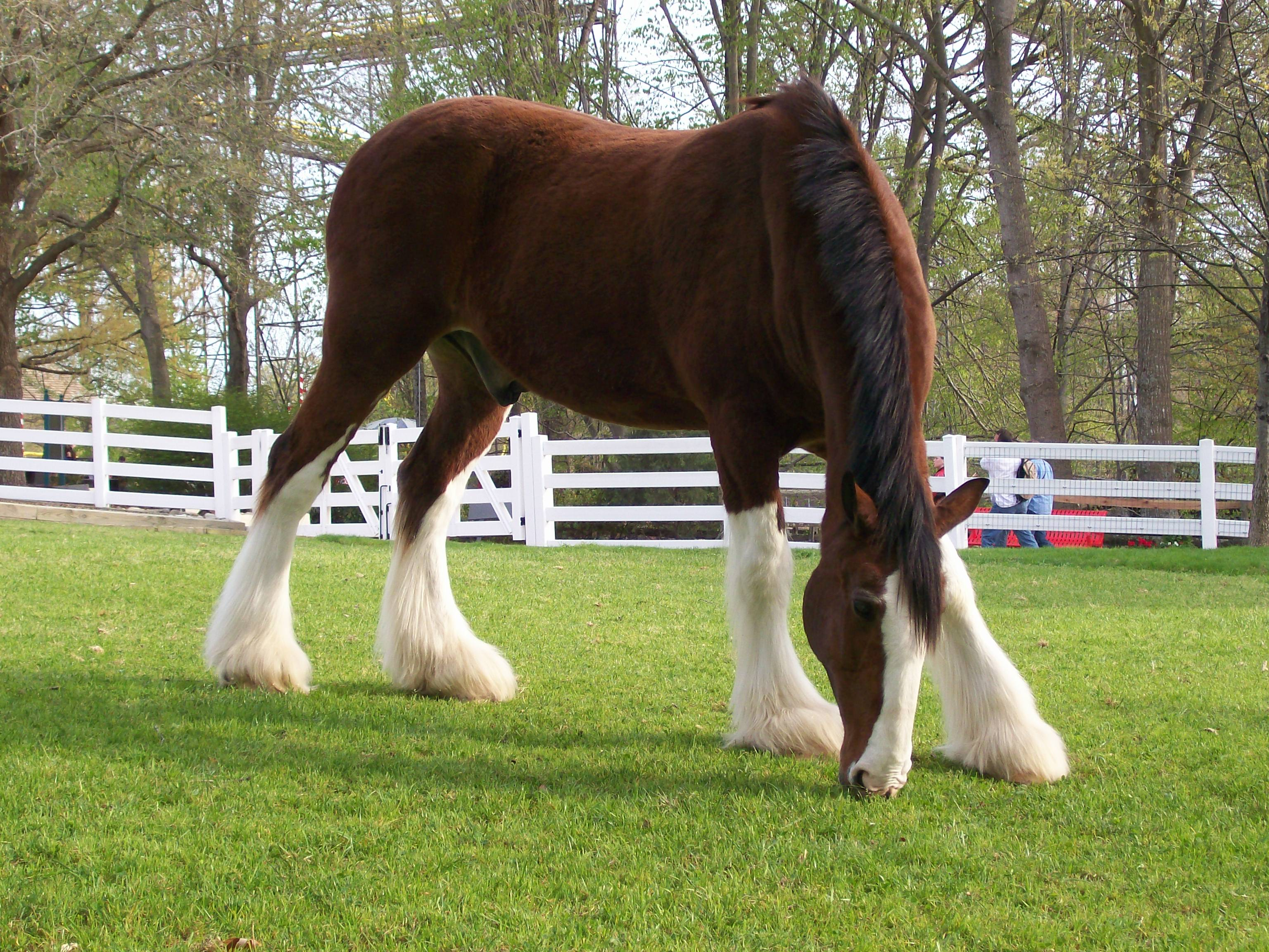 A Clydesdale horse owned and maintained by Anheuser-Busch at Busch Gardens in Williamsburg, VA.